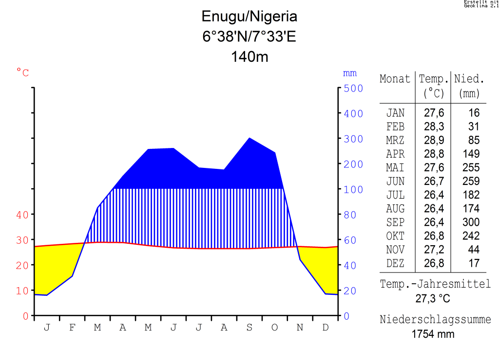 climate chart in the format by Walther and Lieth, metric, °Celsisus and millimeters, made with Geoklima 2.1